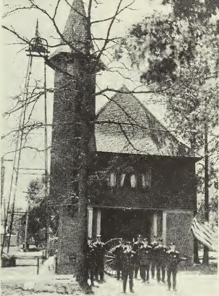 Wilmette and the suburban whirl : a series of historical sketches of life in the suburb from the turn of the century by Mulford, Herbert B Publication date 1956 Publisher Wilmette, Ill. : Wilmette Public Library Collection university_of_illinois_urbana-champaign; americana Digitizing sponsor University of Illinois Urbana-Champaign Contributor University of Illinois Urbana-Champaign Language English Bookplateleaf 0004 Call number 1151568 Camera Canon EOS 5D Mark II Identifier wilmettesuburban00mulf Identifier-ark ark:/13960/t71v6mz0x Ocr ABBYY FineReader 8.0 Openlibrary_edition OL25293649M Openlibrary_work OL16610530W Page-progression lr Pages 150 Possible copyright status Public domain. Published 1923-1963 with notice but no evidence of copyright renewal found in Stanford Copyright Renewal Database. for information. Ppi 500 Scandate 20120501162229 Scanner Scanningcenter il